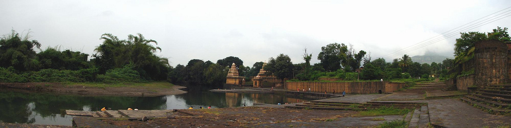 Panoramic view of Menavali Ghat on the river Krishna.Nana Fadnavis wada to the right.One of the structures in the temple complex has a Portuguese Gigantic Bell captured in the battle. This is the place where the Shahrukh Khan starrer 'Swades' was shot.